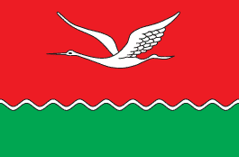 Прапор Бородянського району, Україна